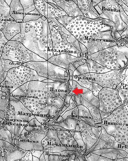 Ilovo